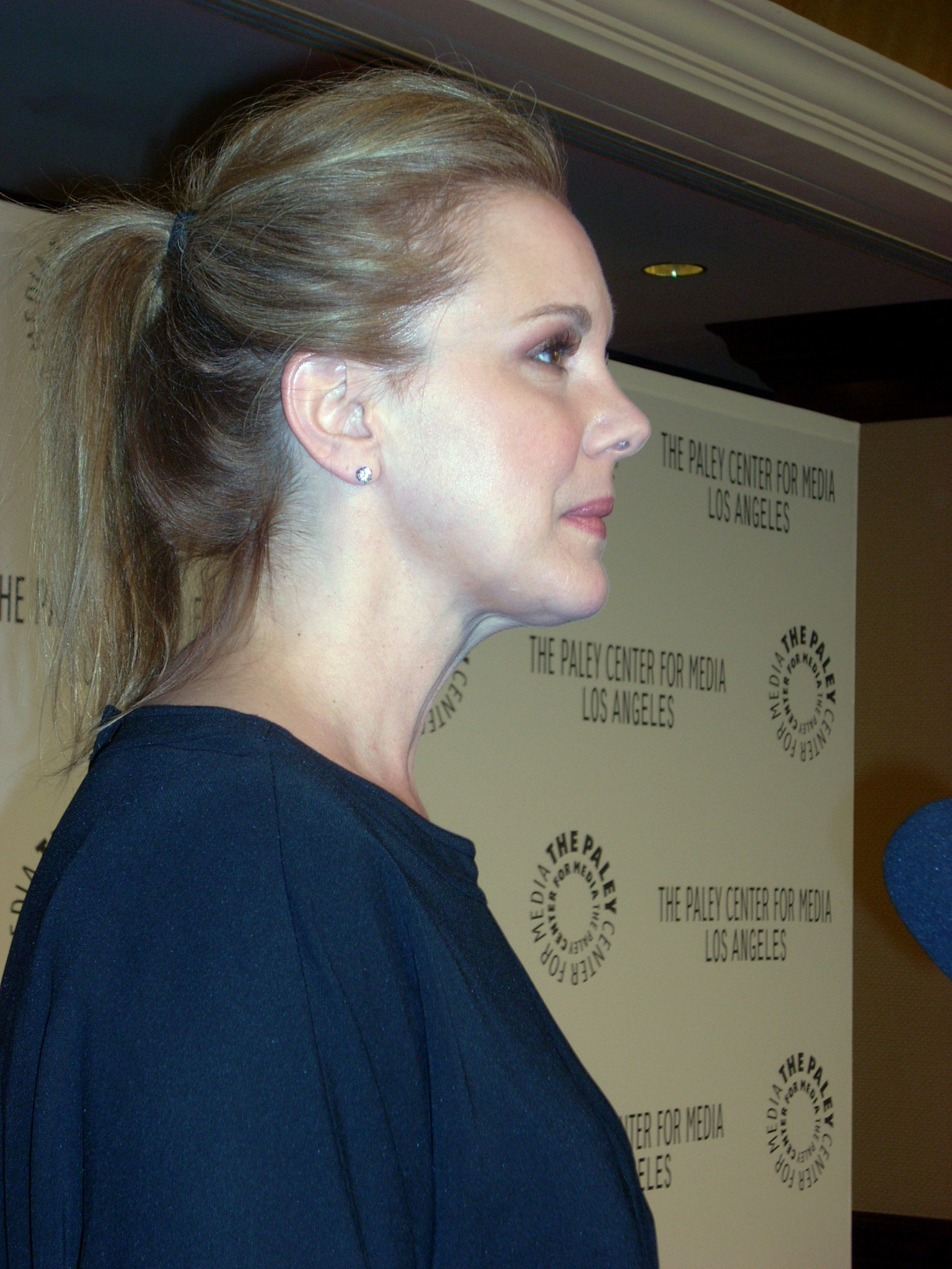 Elizabeth Perkins at Paley Center for Media Gala Honoring Showtime Networks - Century Plaza Hotel, Los Angeles